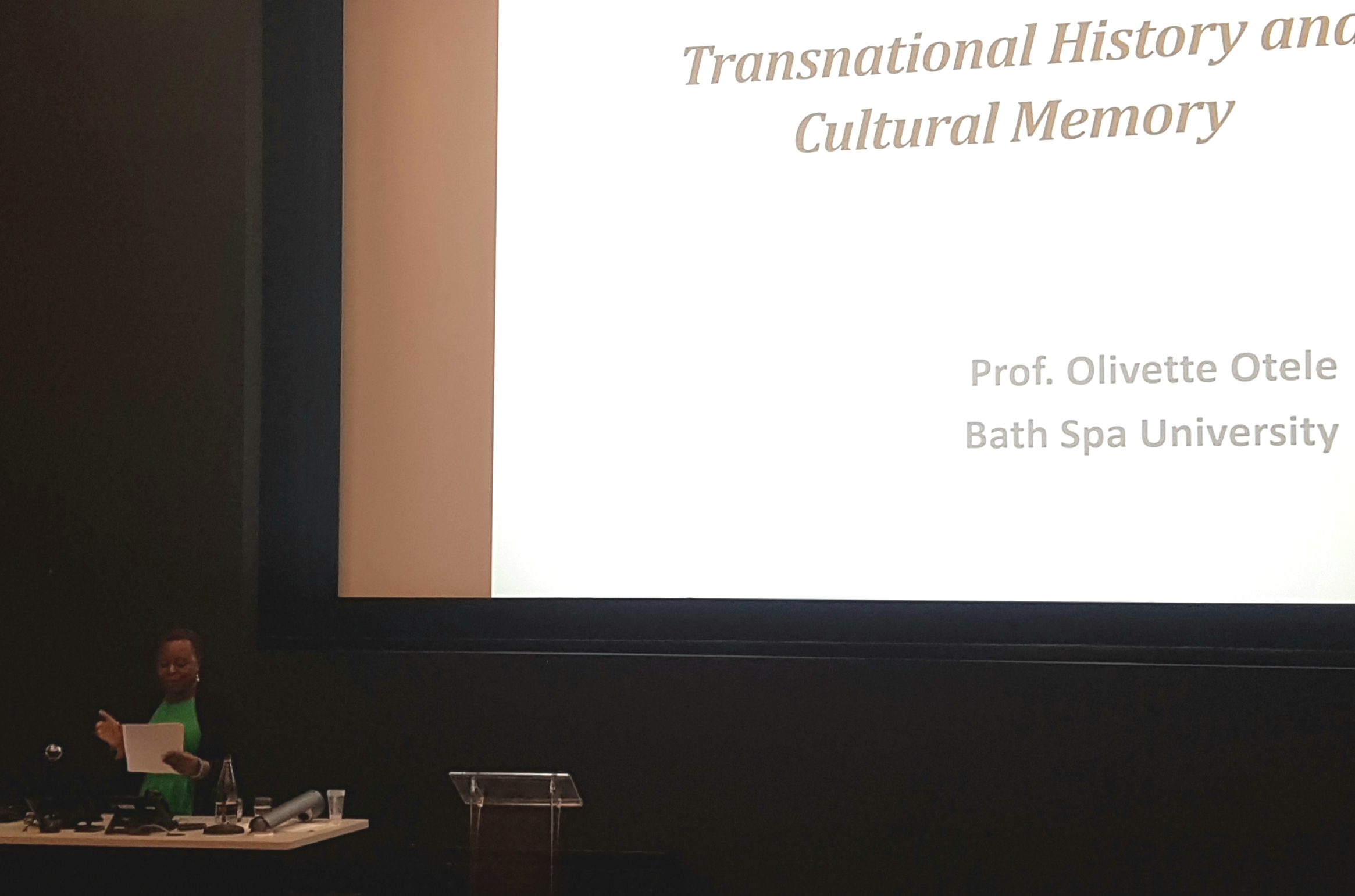 Professor Olivette Otele (University of Bath Spa) giving the keynote lecture at the 2019 social History of Medicine conference held in June 2019.